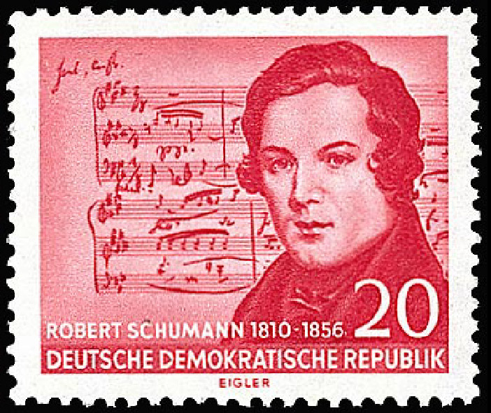 Postage stamp of the GDR, Robert Schumann, 20 Pf, 1956